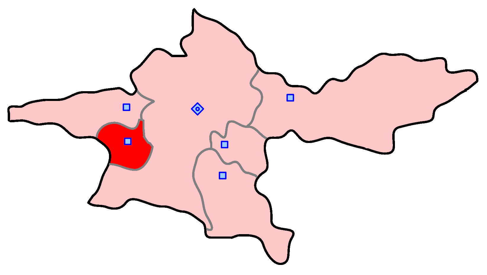 map of Shahryar electoral district, Tehran Province, Iran